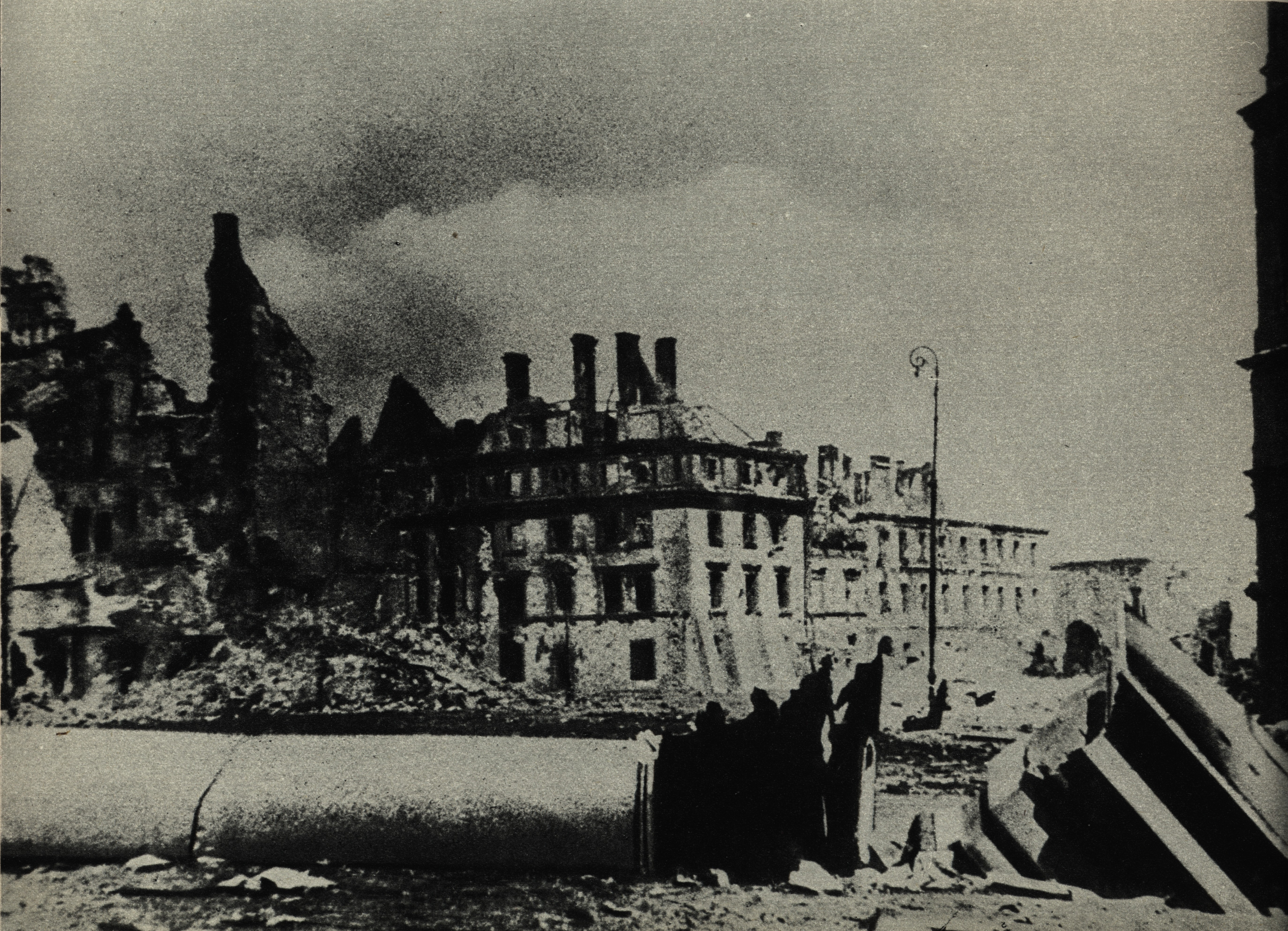 Sigismund's Column in Warsaw demolished by German tank during the Warsaw Uprising (on night 1/2 September 1944).